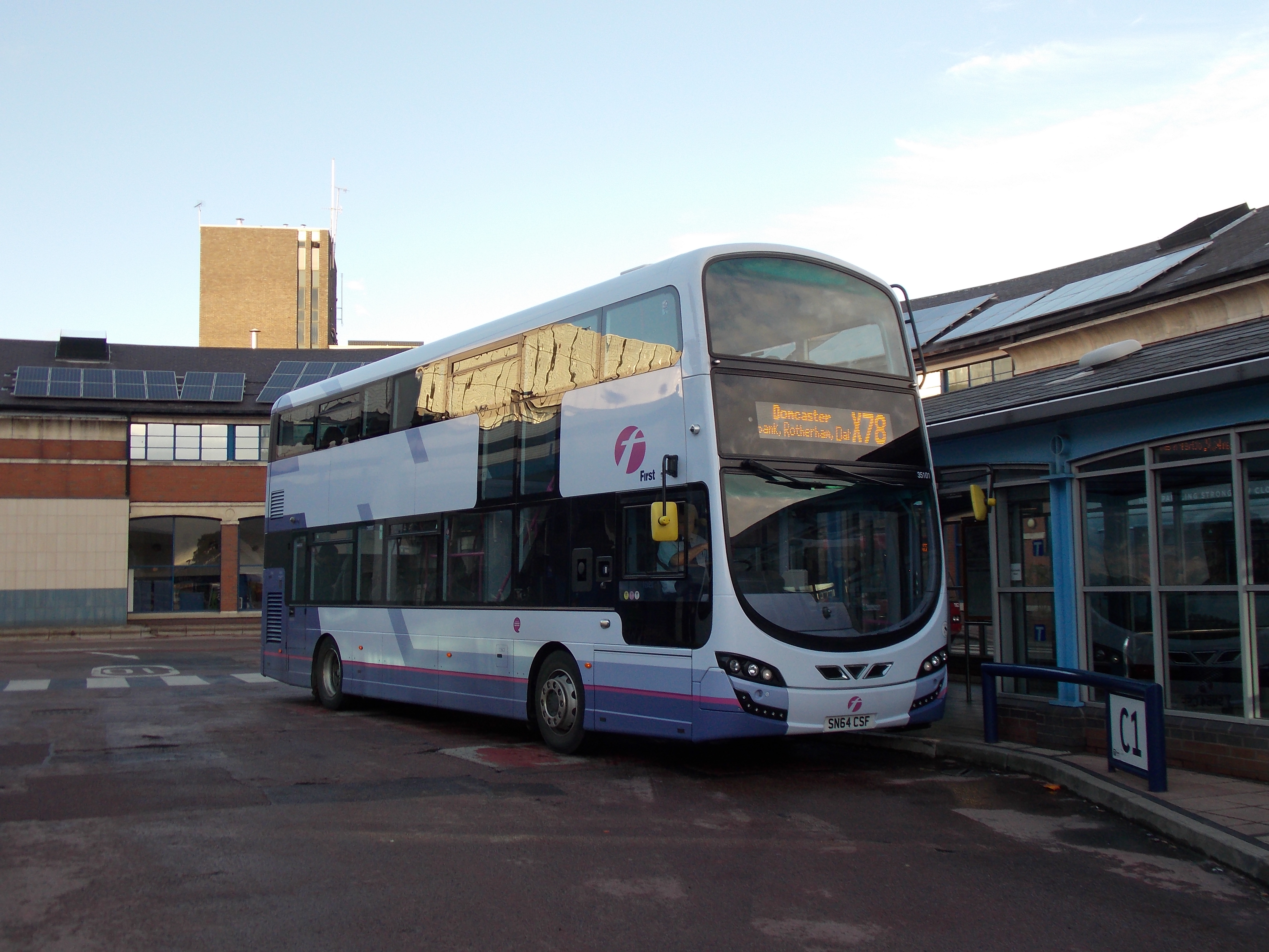 SN64CSF (35101), one of the prototype demonstrator StreetDecks built in 2014, seen in service with First Sheffield at Sheffield Interchange on 24 October 2015.